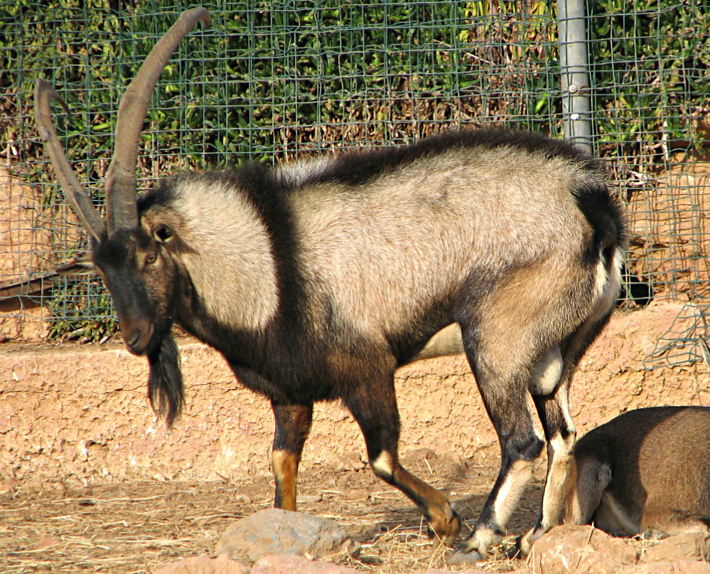 Male and young female Cretan ibex in captivity.